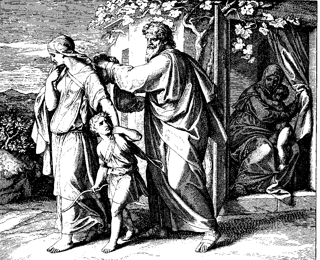 Woodcut for "Die Bibel in Bildern", 1860.